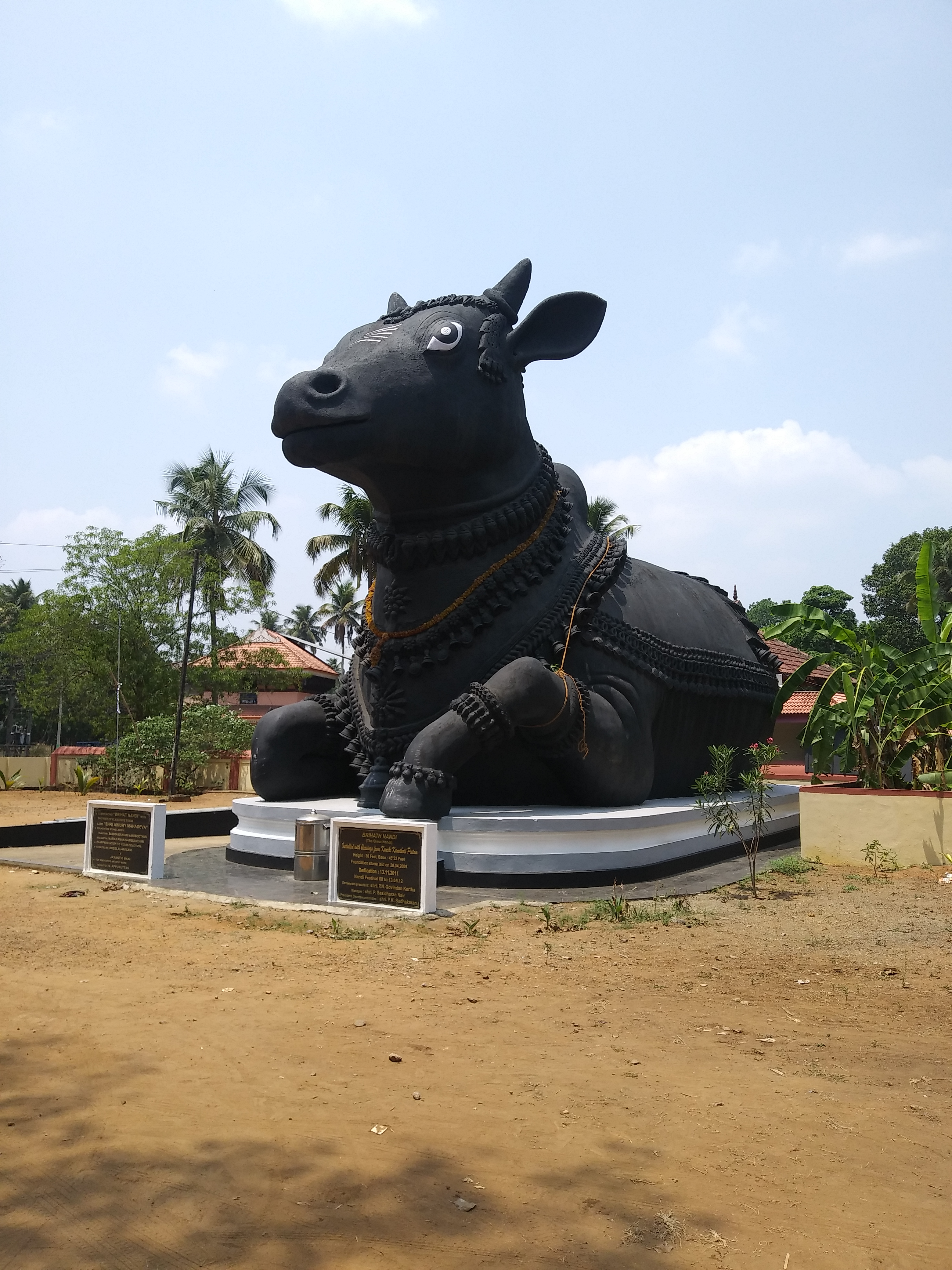 A giant Nandi sculpture known as Brihath Nandi in Aimury Shiva Temple